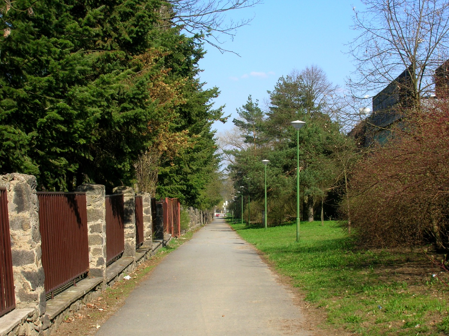 Třebíč-Jejkov. Janáček's Alley near hospital